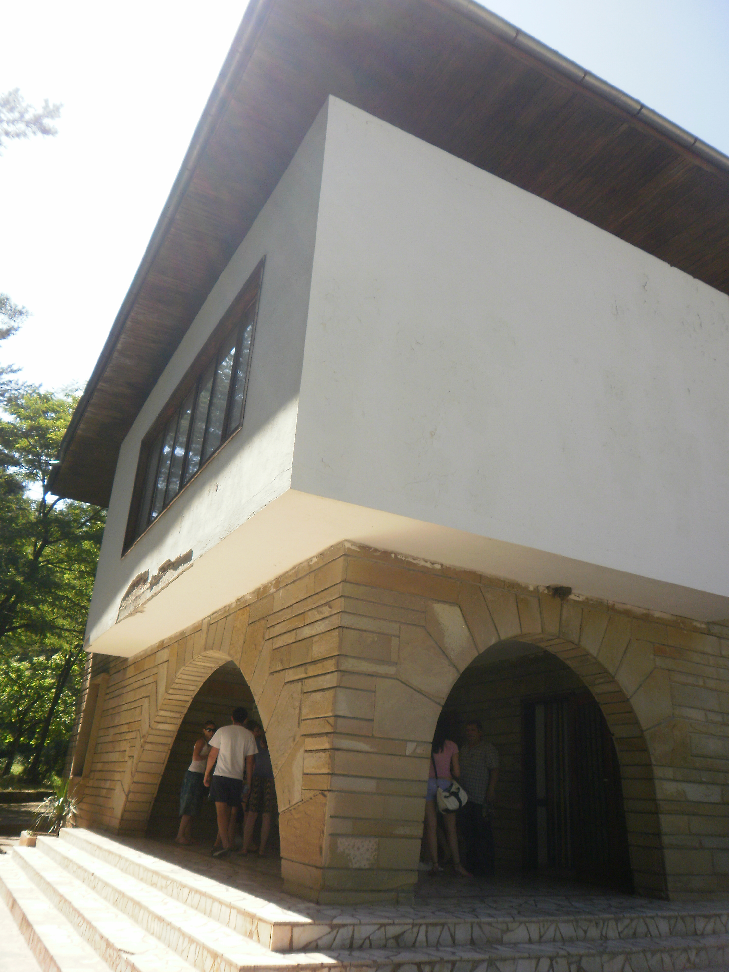 Natural History museum in Kotel, Bulgaria.